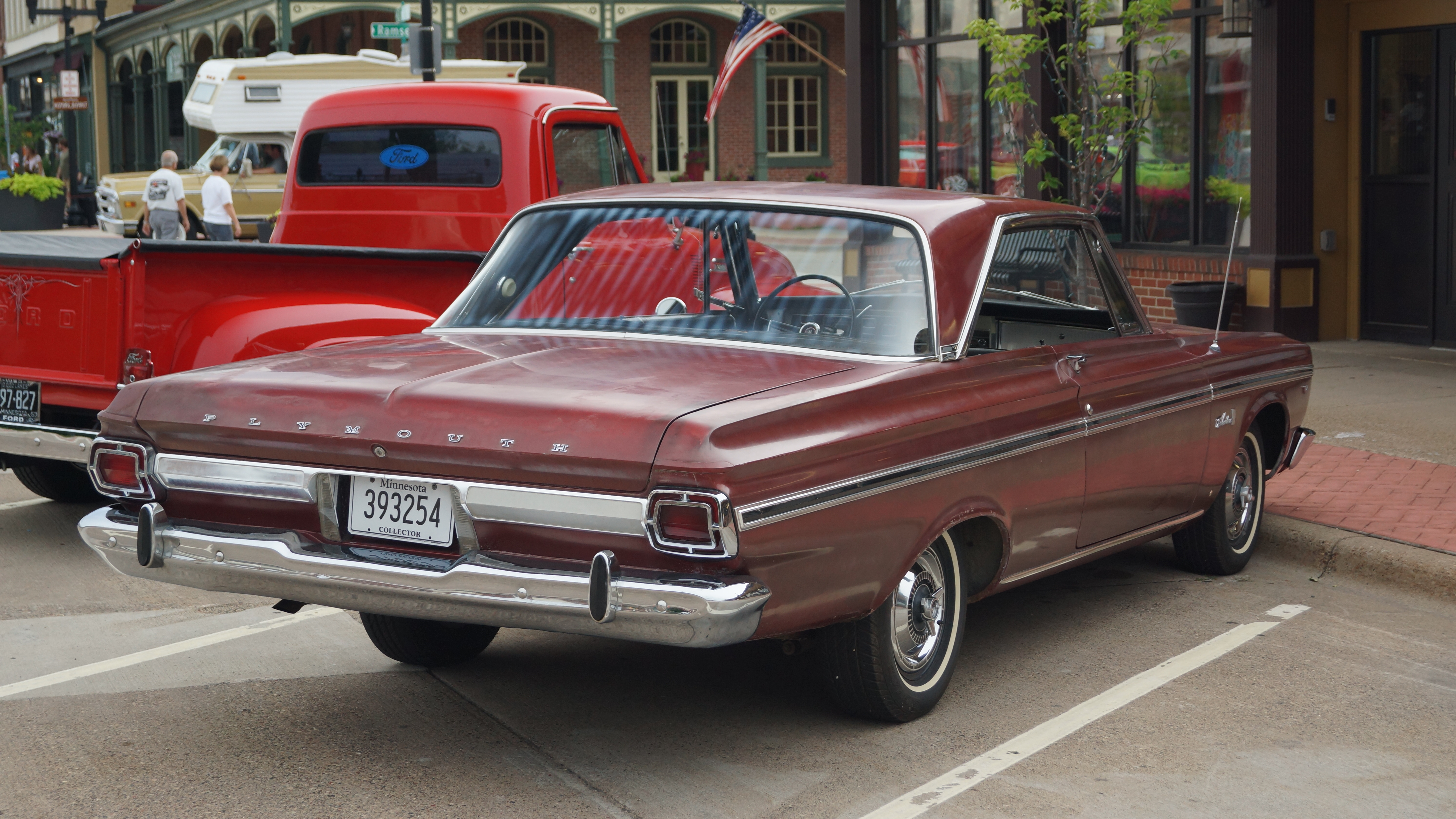 HISTORIC DOWNTOWN HASTINGS CRUISE-IN & CLASSIC CAR SHOW Hastings, Minnesota June 30, 2018 Click here for previous Hastings Cruise Night pictures Click here for more car pictures at my Flickr site. Or here for my Car Crazy Tumblr site. Or on Twitter @DVS1mn.